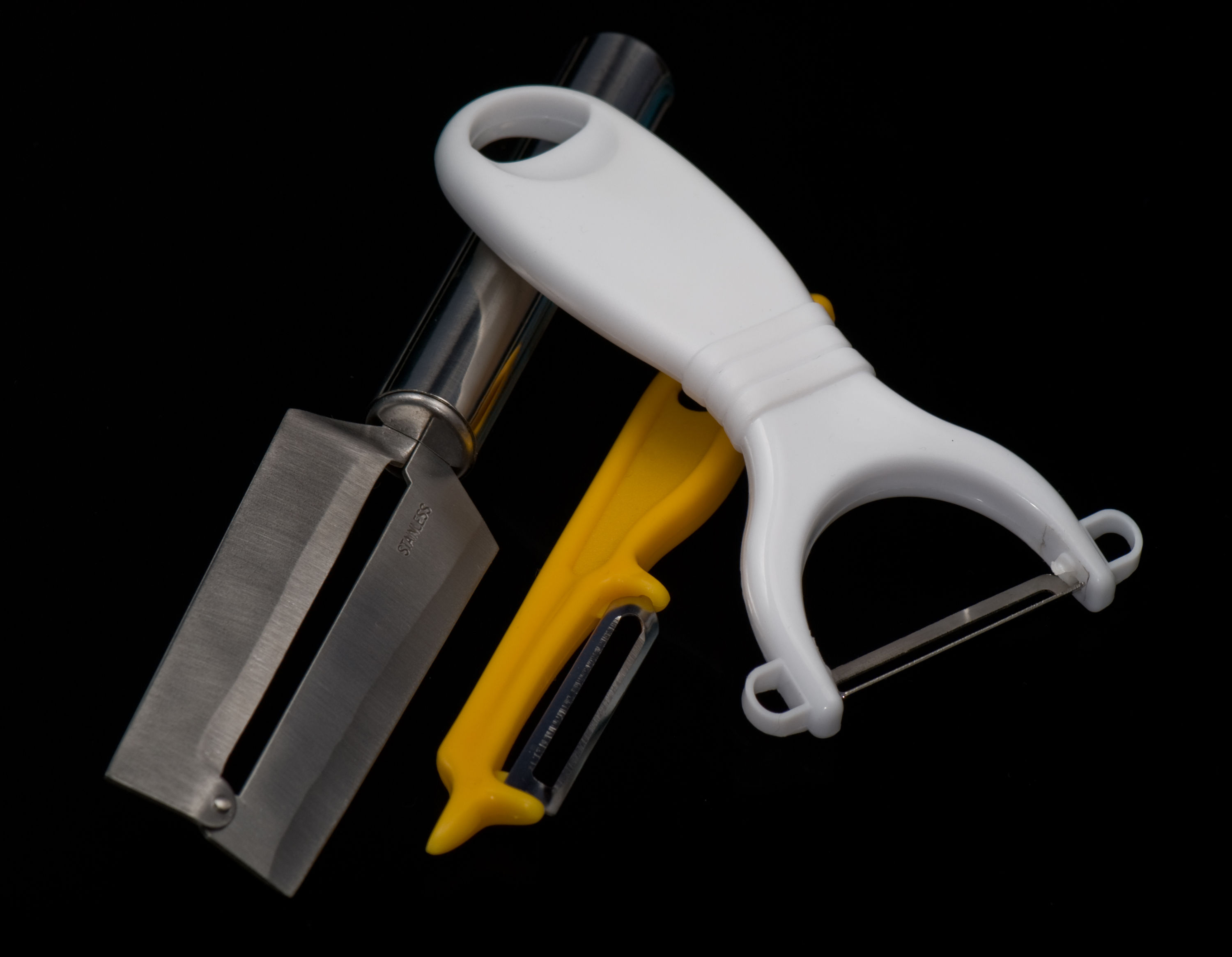 Peelers: Various vegetable peelers available in Australia. Sold as "Stainless steel peeler" ($3), aka Lancashire(?) peeler Sold as "Vegetable peeler" ($2 for 4), aka Aussie peeler Sold as "Safety vegetable peeler" ($2), aka Y-peeler or razor peeler